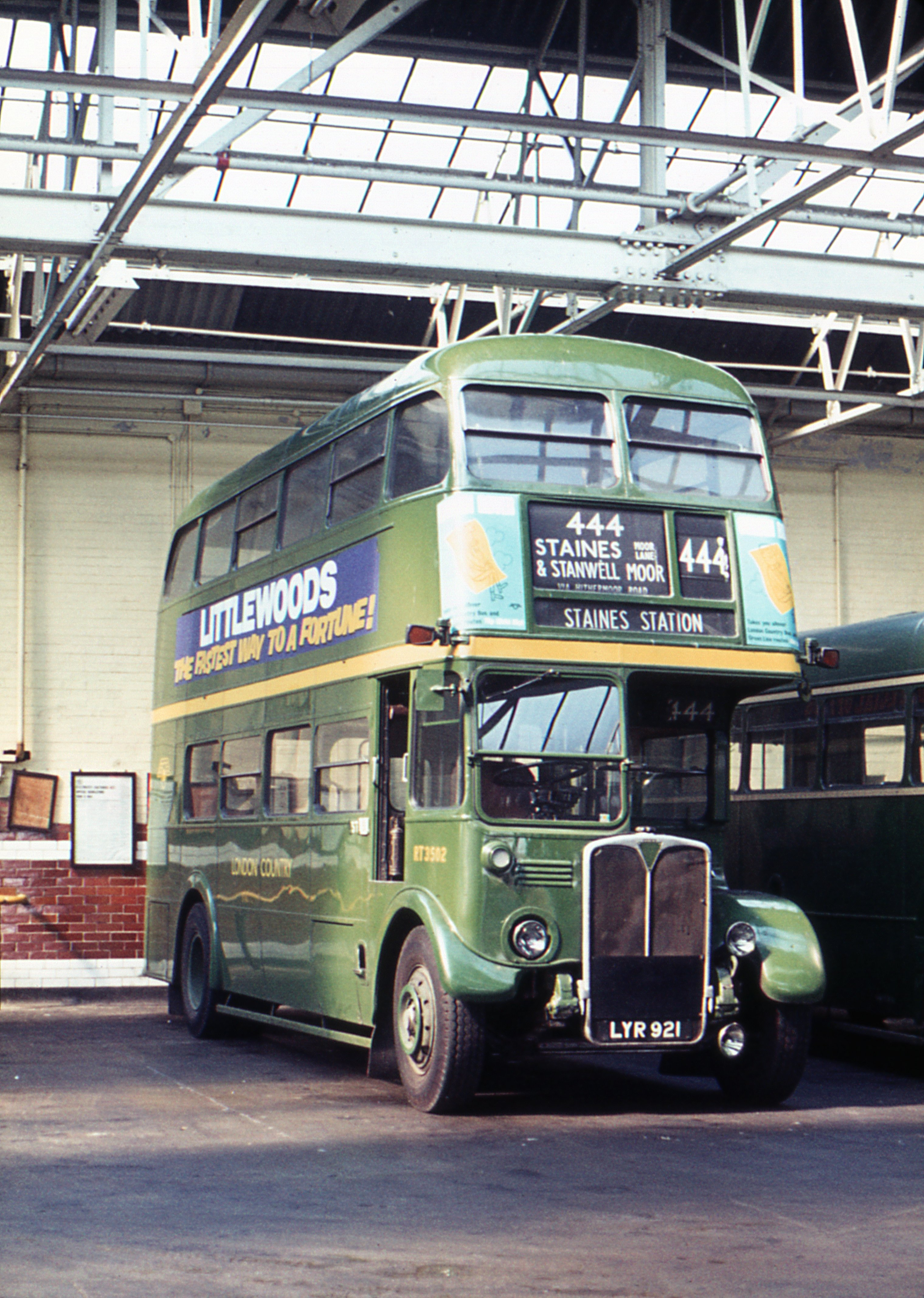 One of Staines' Garage RT stud in their last year of regular service. RT 3502 on this day assigned to the 444 Route. Sometime in 1972. Camera: Olympus Pen F Half Frame SLR.